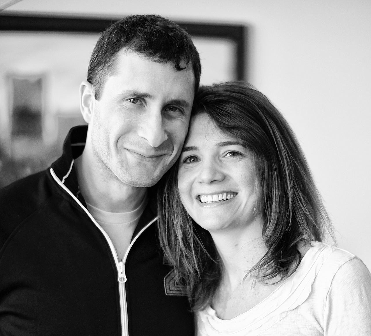 Auren Hoffman and his wife Hallie Alexandra Mitchell